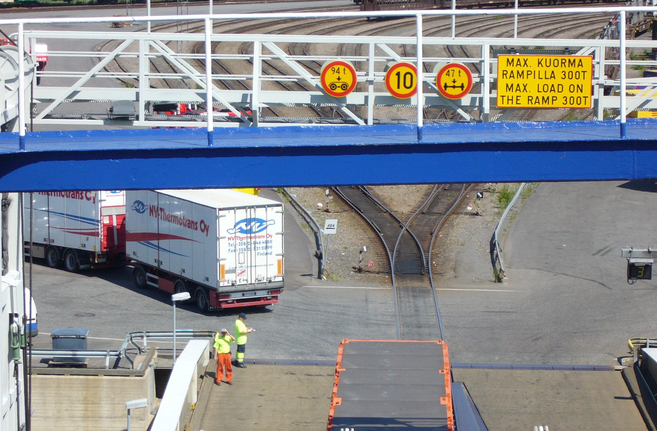 Finnish RoRo cargo ship M/S Global Freighter in Turku, Finland.